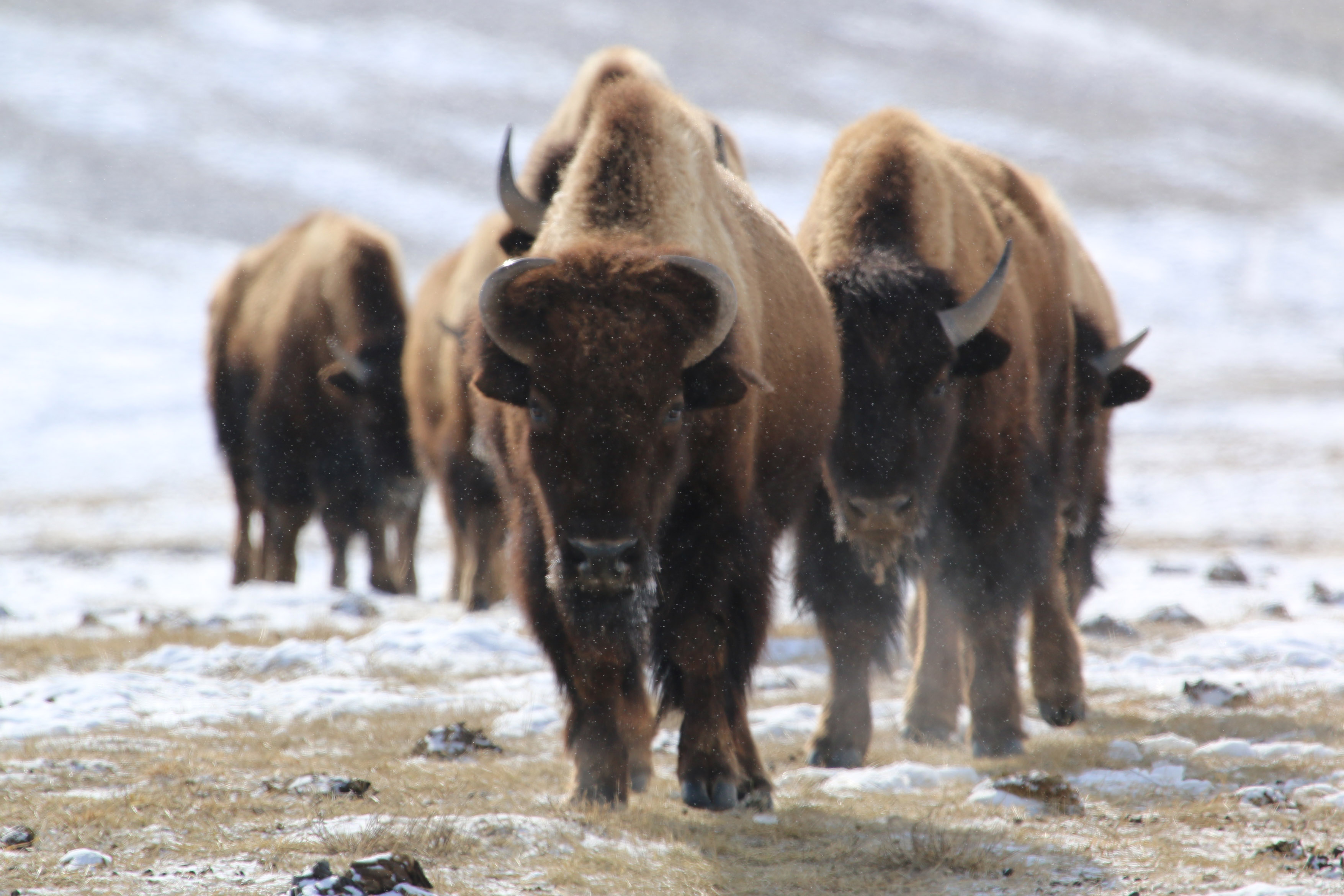 A group of buffalo trudge across the landscape at the National Elk Refuge. Credit: Lori Iverson / USFWS